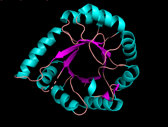 Made In Pymol